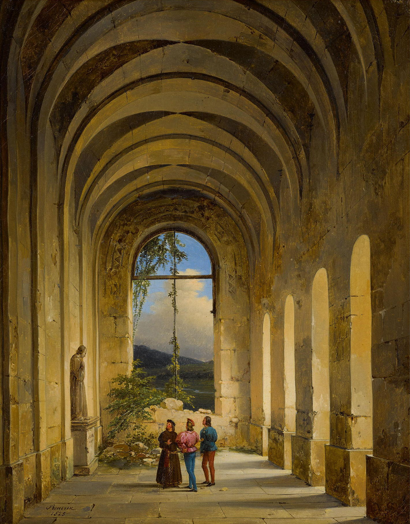 Charles-Caïus Renoux, Conversation in a Cloister (1825, private collection)